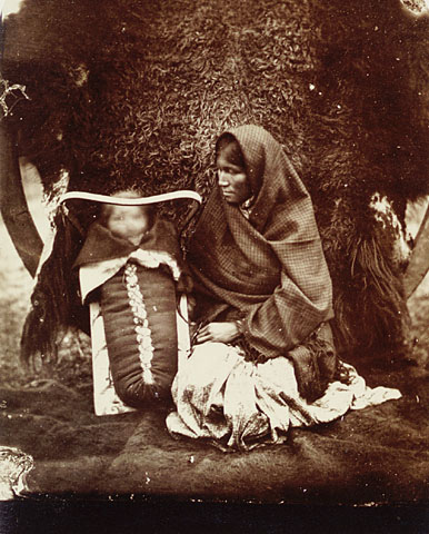 Title / Titre : An Ojibwa woman and child, Red River Settlement, Manitoba, 1895 / Une femme ojibwa et son enfant, An Ojibwa woman and child, Colonie de la Rivière-rouge , 1895 Creator(s) / Créateur(s) : Humphrey Lloyd Hime, 1833-1903. Date(s) : 1858 Reference No. / Numéro de référence : MIKAN 3192431 Location / Lieu : Red River Settlement, Manitoba / Établissement de la rivière Rouge, Manitoba Credit / Mention de source : Humphrey Lloyd Hime. Library and Archives Canada, C-000728 / Humphrey Lloyd Hime. Bibliothèque et Archives Canada, C-000728